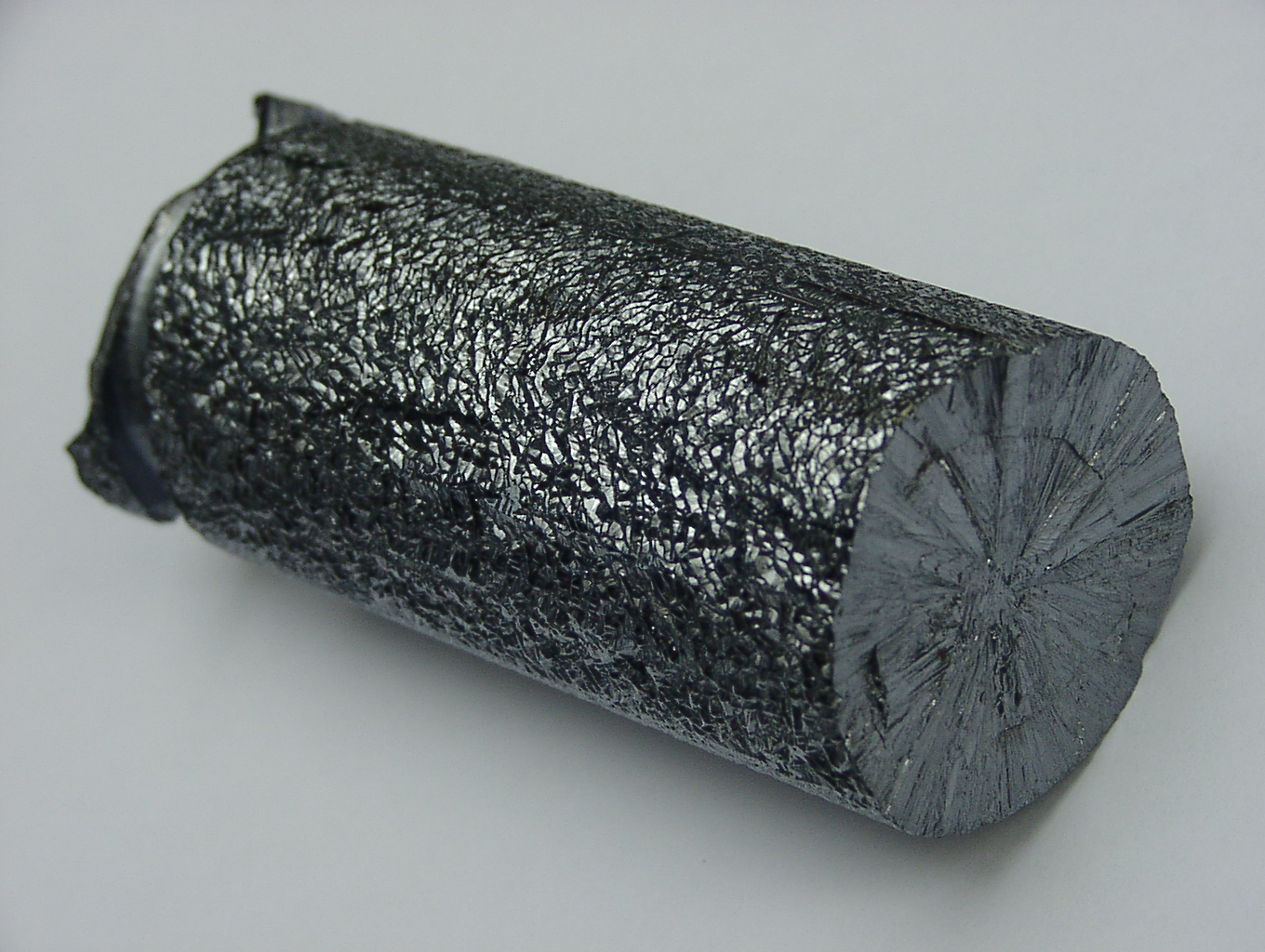 A hyperpure polycrystalline silicon rod made by the Siemens process for use in producing single-crystal silicon by the Czochralski process. It weighs 302 grams and is about 10.3 cm long and 4 cm in diameter.